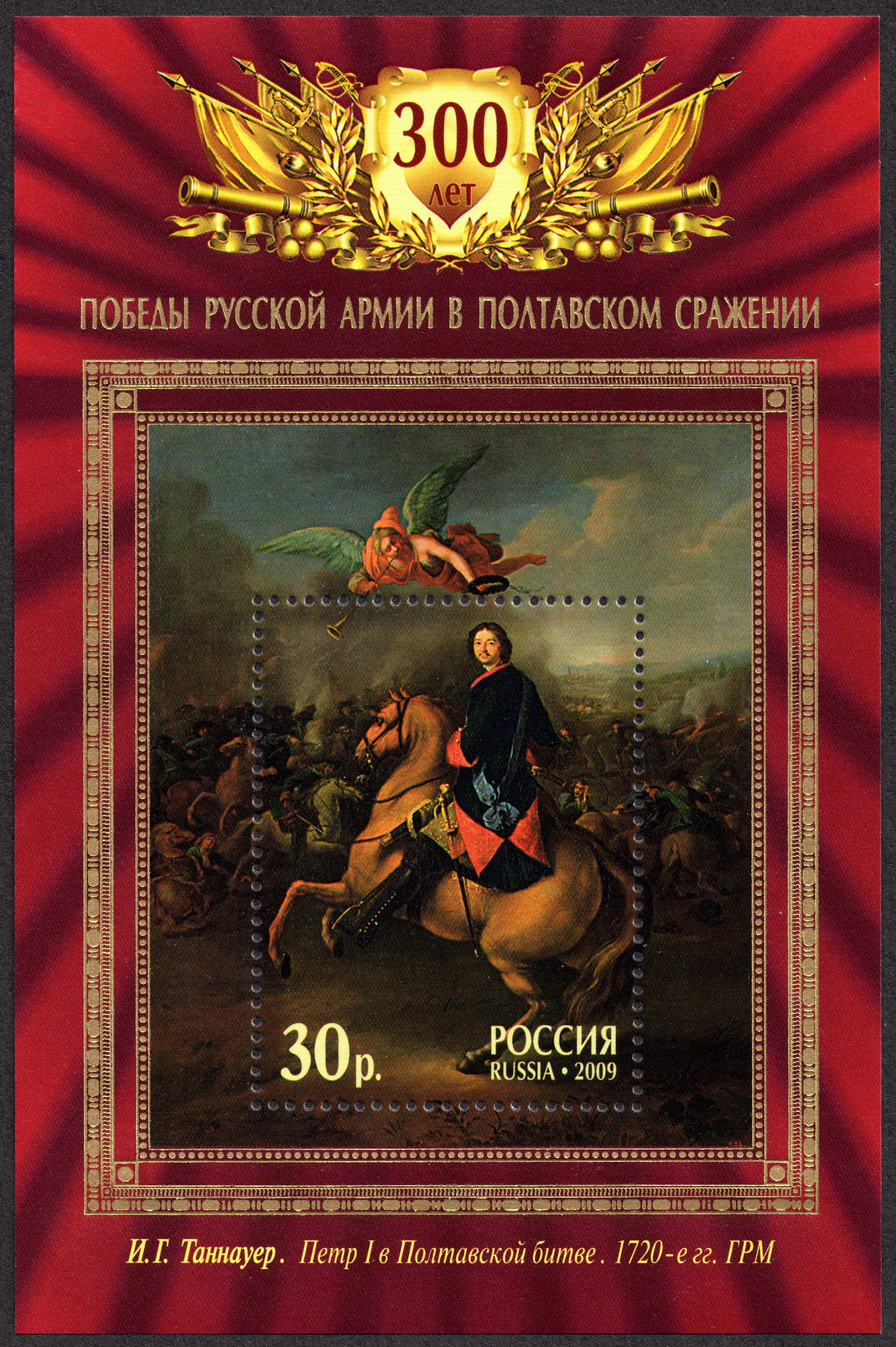 300th anniversary of the Battle of Poltava. The miniature sheet of Russia, 30 Rubles, 26 June 2009, PTC Marka Catalogue No 1324, Michel No 1556 (Block122).The painting Peter I in the Battle of Poltava by Johann Gottfried Tannauer (1720s); the cartouche symbolizing the military achievements of Russian army is depicted on the top of the miniature sheet.